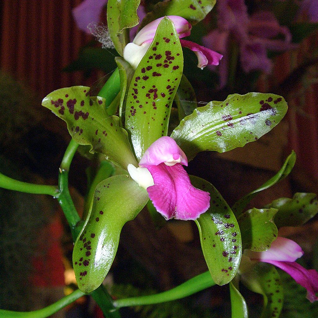 Cattleya guttata - flower